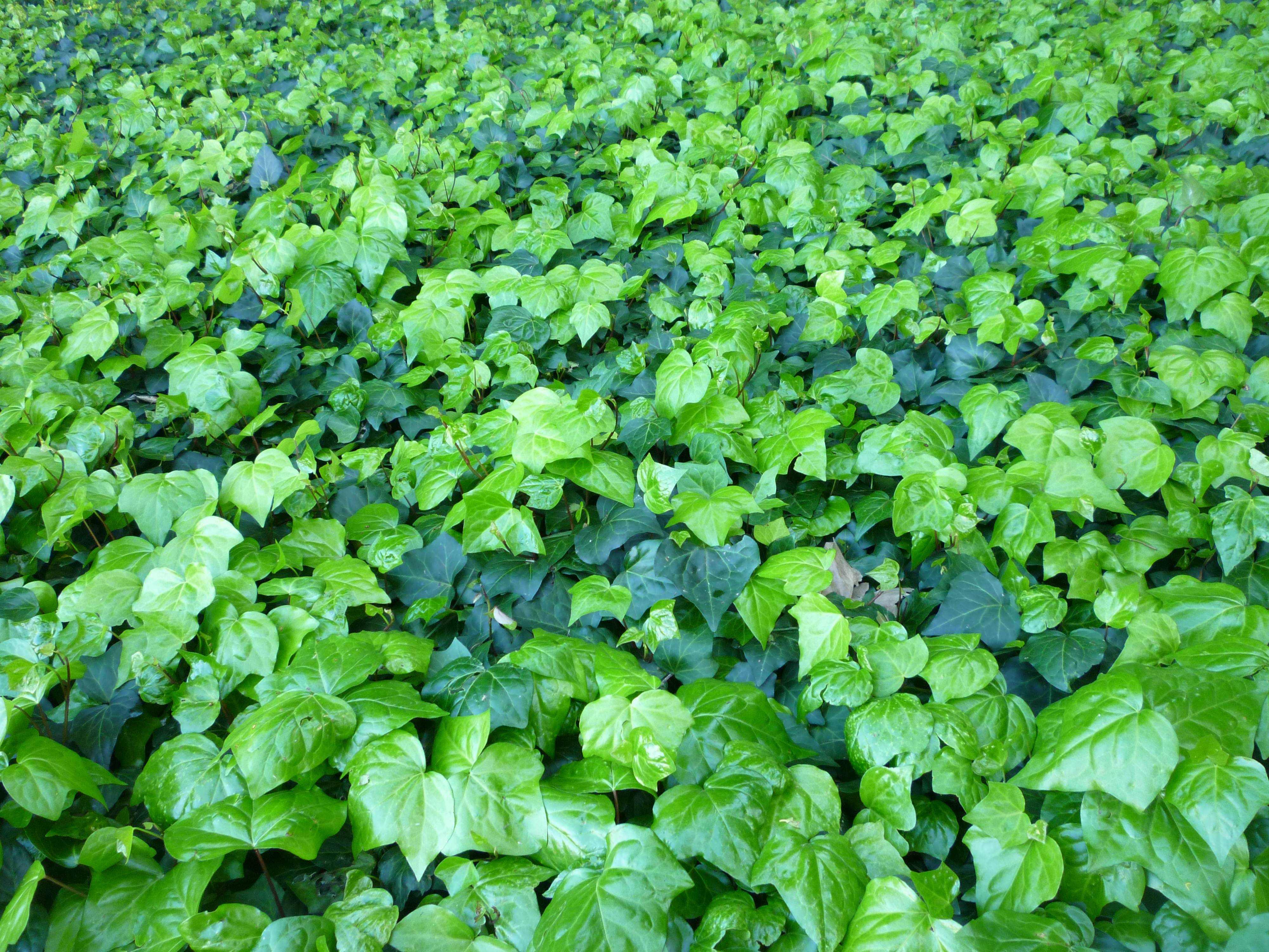 Hedera in Hyde park, Sydney, used as underplanting